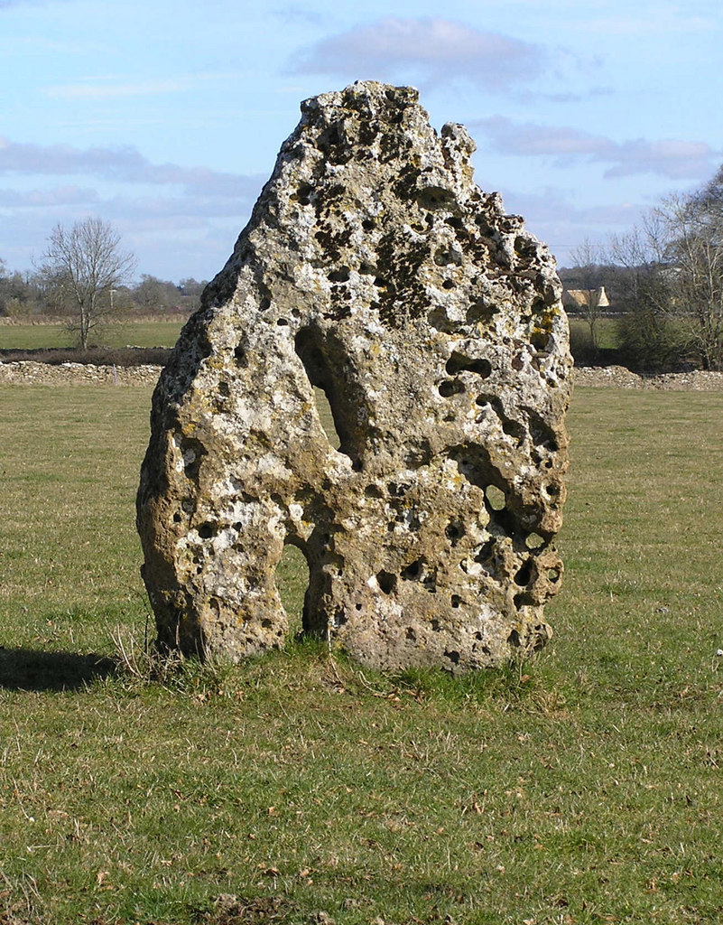 Long Stone The Long Stone is believed to be the closing slab from a burial chamber or portal dolmen. A smaller stone can be seen in the field wall approximately 30m away. This may also have come from the same chambered tomb. The stone is located on the Minchinhampton to Avening road about half a mile from Hollybush Farm. It is set just off the road with easy access.